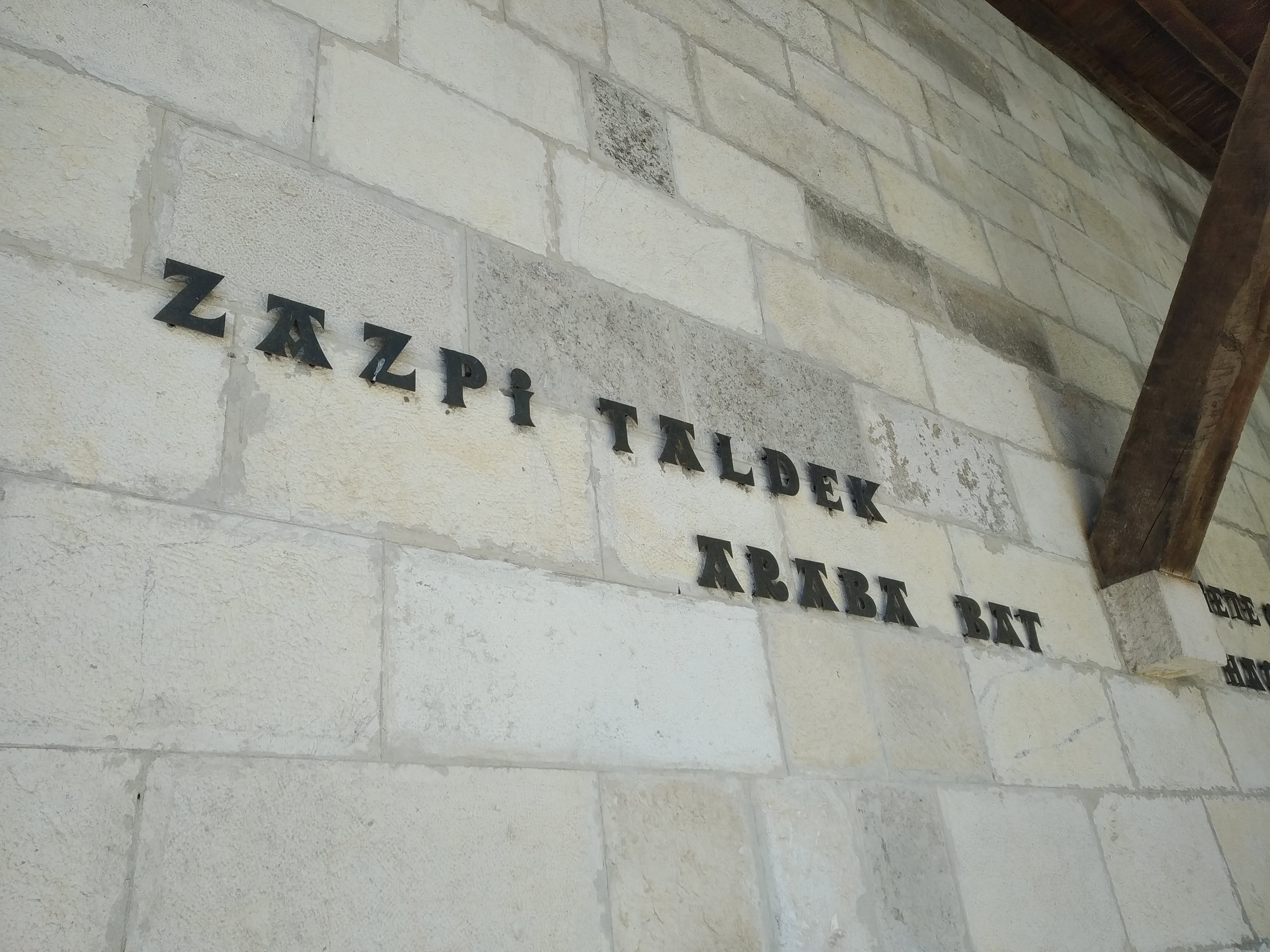 Mention of the Cuadrillas of Araba in Done Bikendi Arana. In Basque, "seven cuadrillas, one Araba". It's in the portico of the church of Done Bikendi Arana.